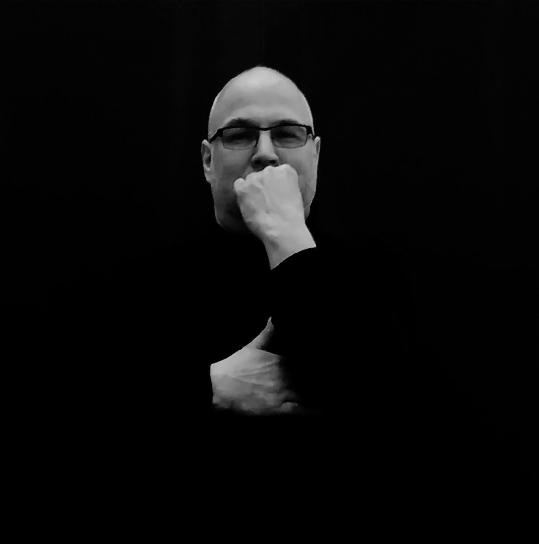 self portrait by the artist himself